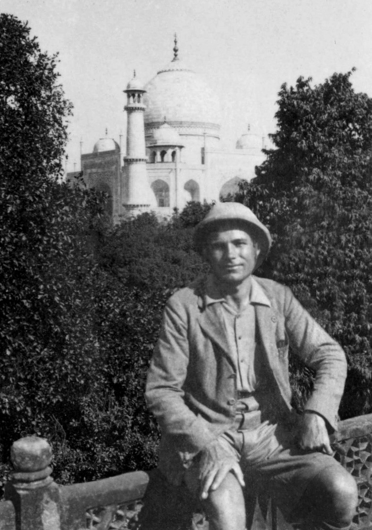 Poška at the seat of Taj Mahal, 1931-32